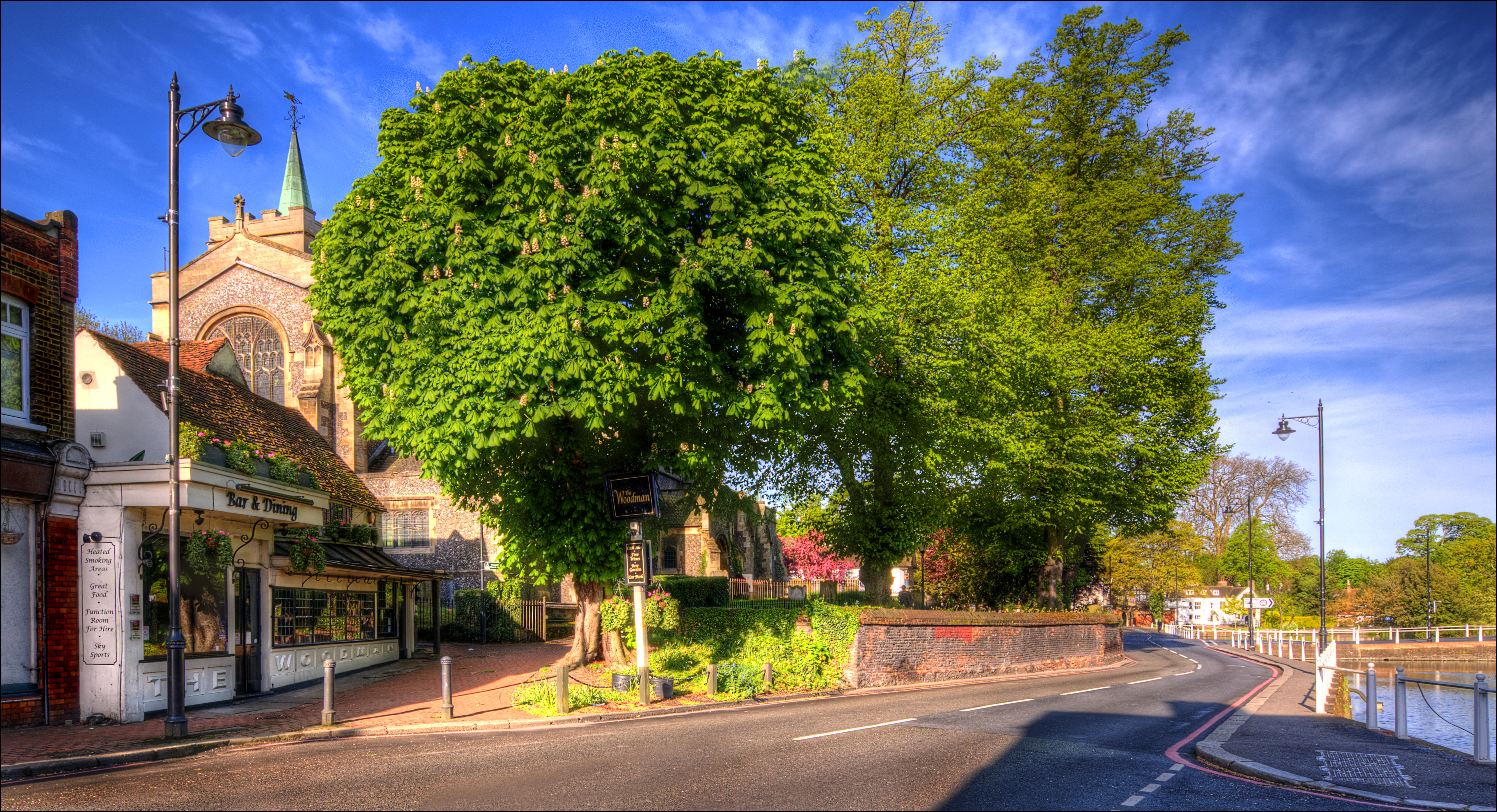 Carshalton Village including The Woodman & All Saints' Church with Honeywood House in the background.